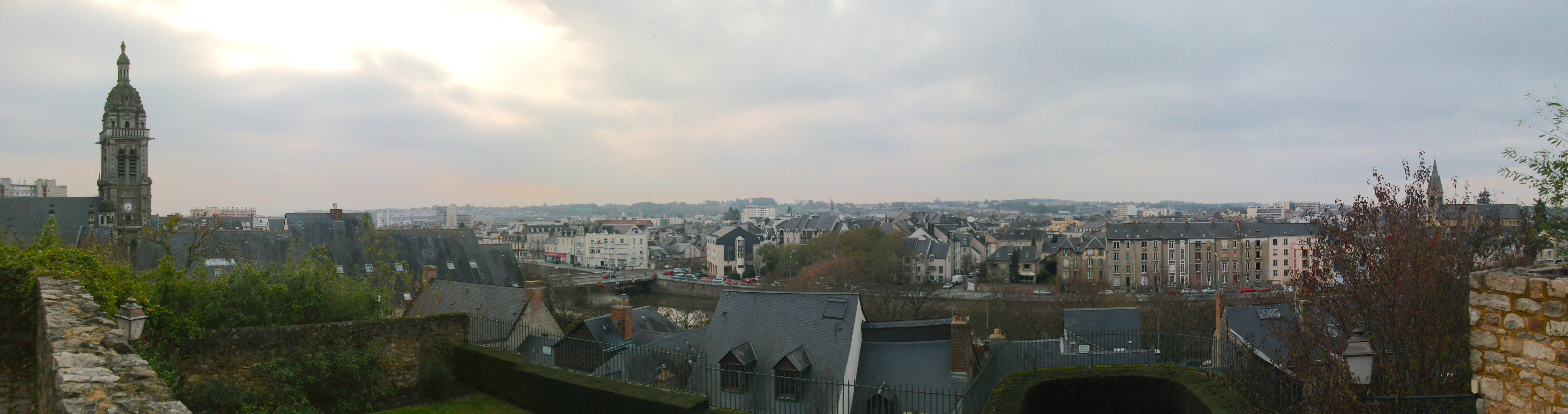 Panorama of Le Mans, France, facing North-West